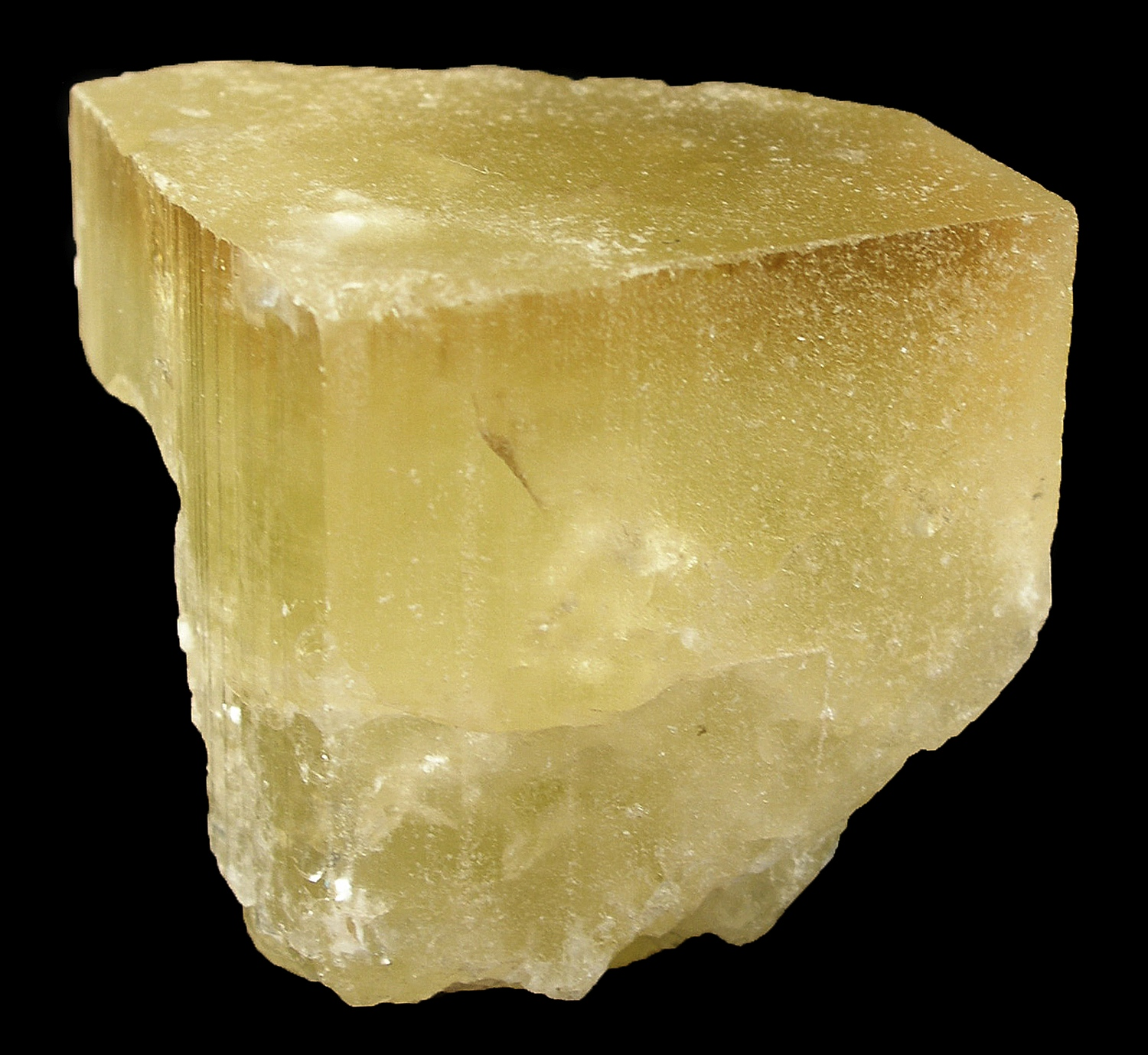 Danburite Locality: Momeik, Mogok, Sagaing District, Mandalay Division, Burma (Myanmar) (Locality at ) Size: miniature, 4.5 x 3.4 x 3.3 cm Danburite A bizarre, squarish crystal of DANBURITE, believe it or not. A few small examples of this material came out in 2007-2008, and were sold as scapolite at first. I recall a few fine thumbnails, and some facet rough, with several dealers. They sold for very high prices, actually. But I had not seen such a fat crystal at that time. This turned up at the Munich show, and has now been confirmed by analysis at CalTech in the lab of Dr. George Rossman. I have not seen others at Munich or Tucson, or from my own direct sources, and so I can only presume this is the same older material, and not a new find. An interesting addition to any Afghani/Pakistani suite of specimens!